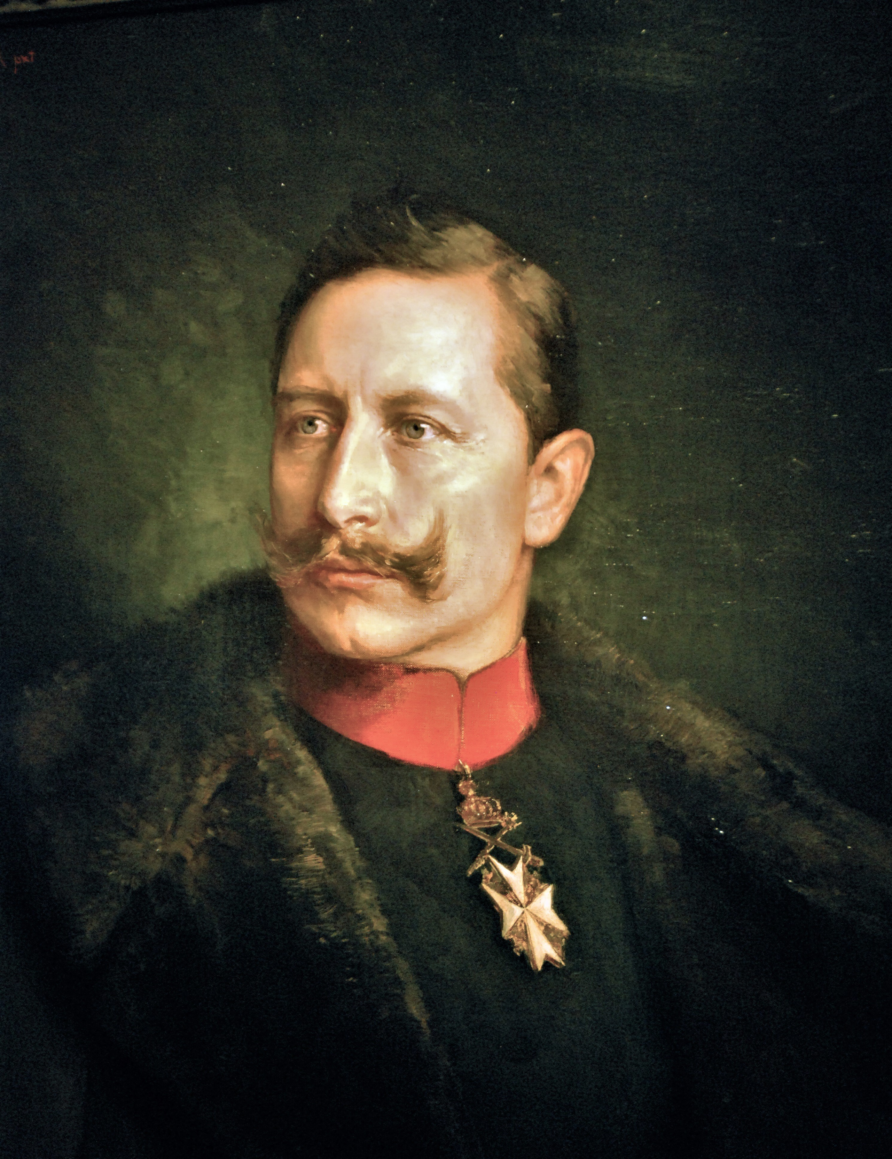 Wilhelm II, German Emperor (1859-1941)